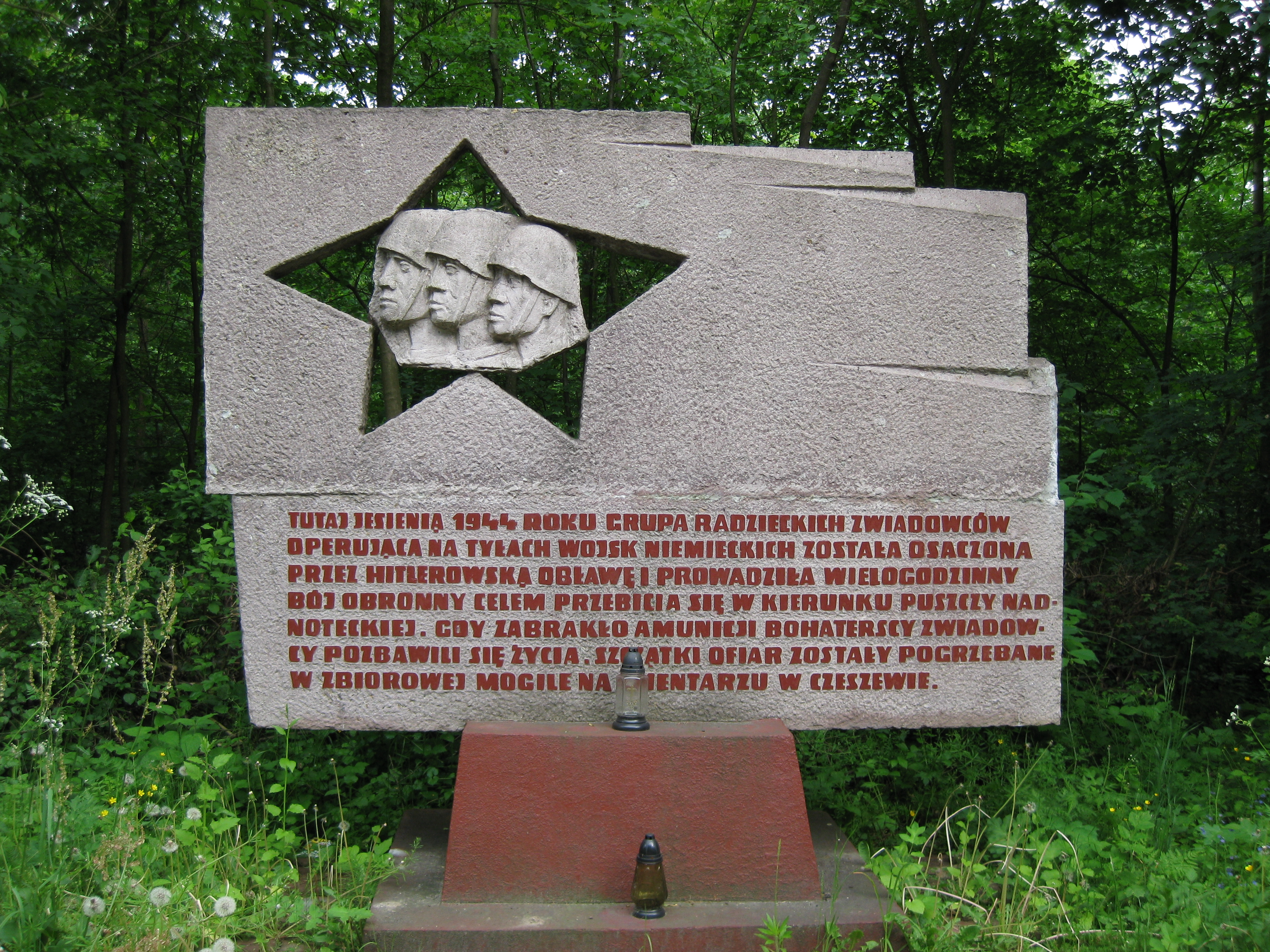 Sarnice - monument to Soviet soldiers who died in a skirmish with the Nazis in the autumn 1944